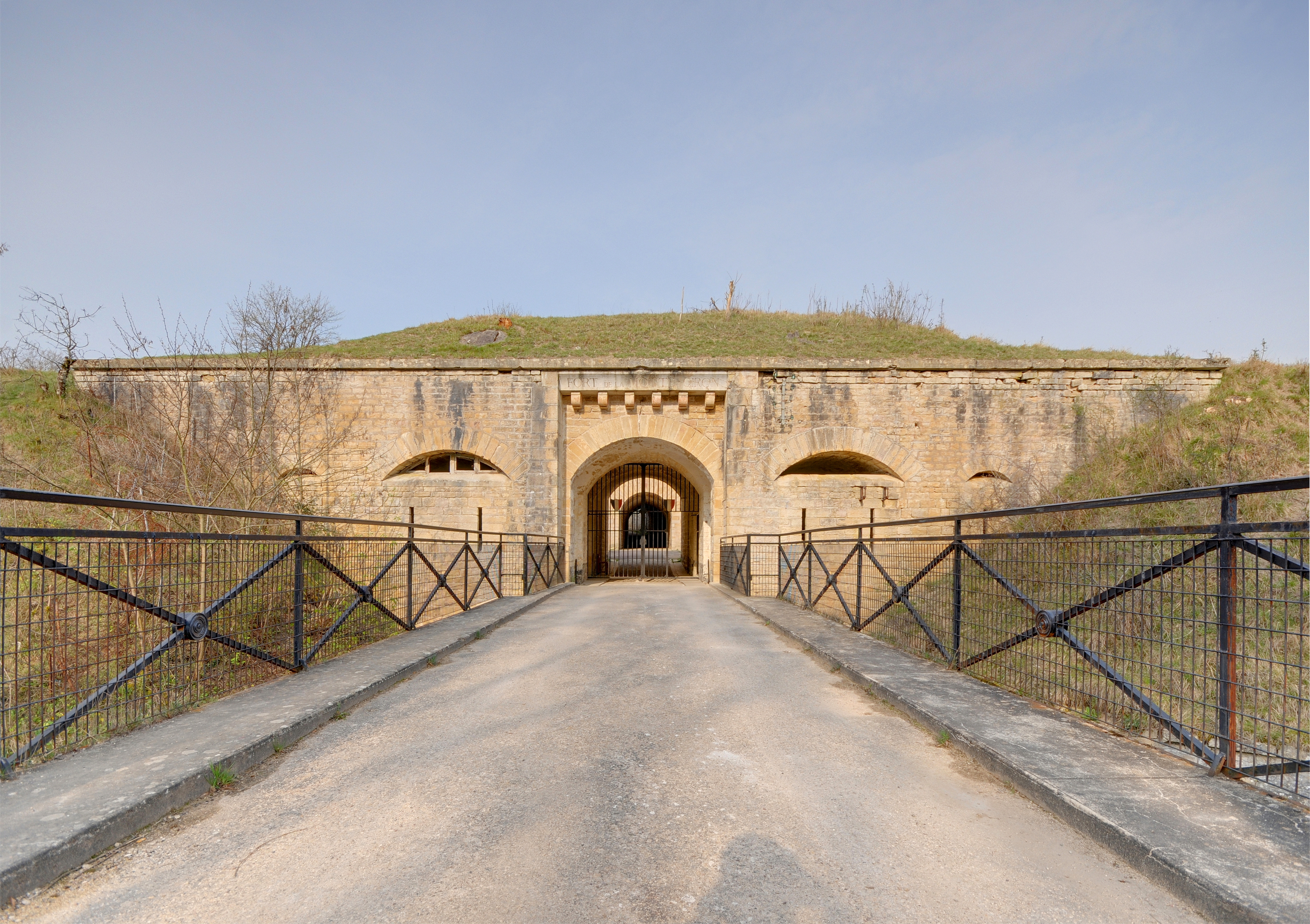 This photograph was taken with a Nikon D300 Fort de la Motte-Giron : entrée (HDR).